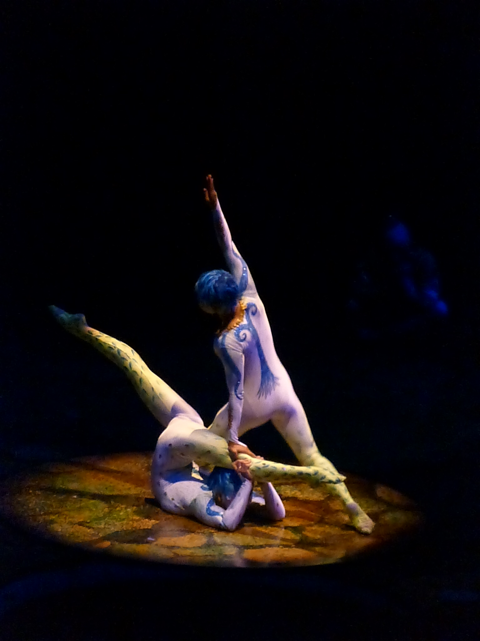 Two Contortion artists create graceful and lithe figures and movements with their extreme flexibility and balance. Cirque du Soleil 2012 Alegría, Istanbul, Turkey